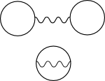 Roland Gersch Y!qtr9f 15:40, 29 April 2006 (UTC)